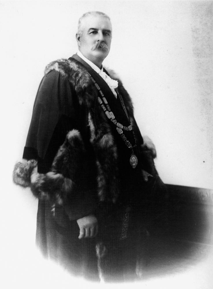 Alfred David McWaters. Mayor of Toowoomba in 1916. (Description supplied with photograph.).